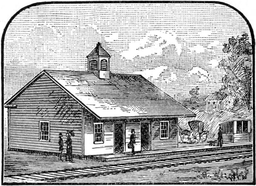 The original 1838 Lynn station